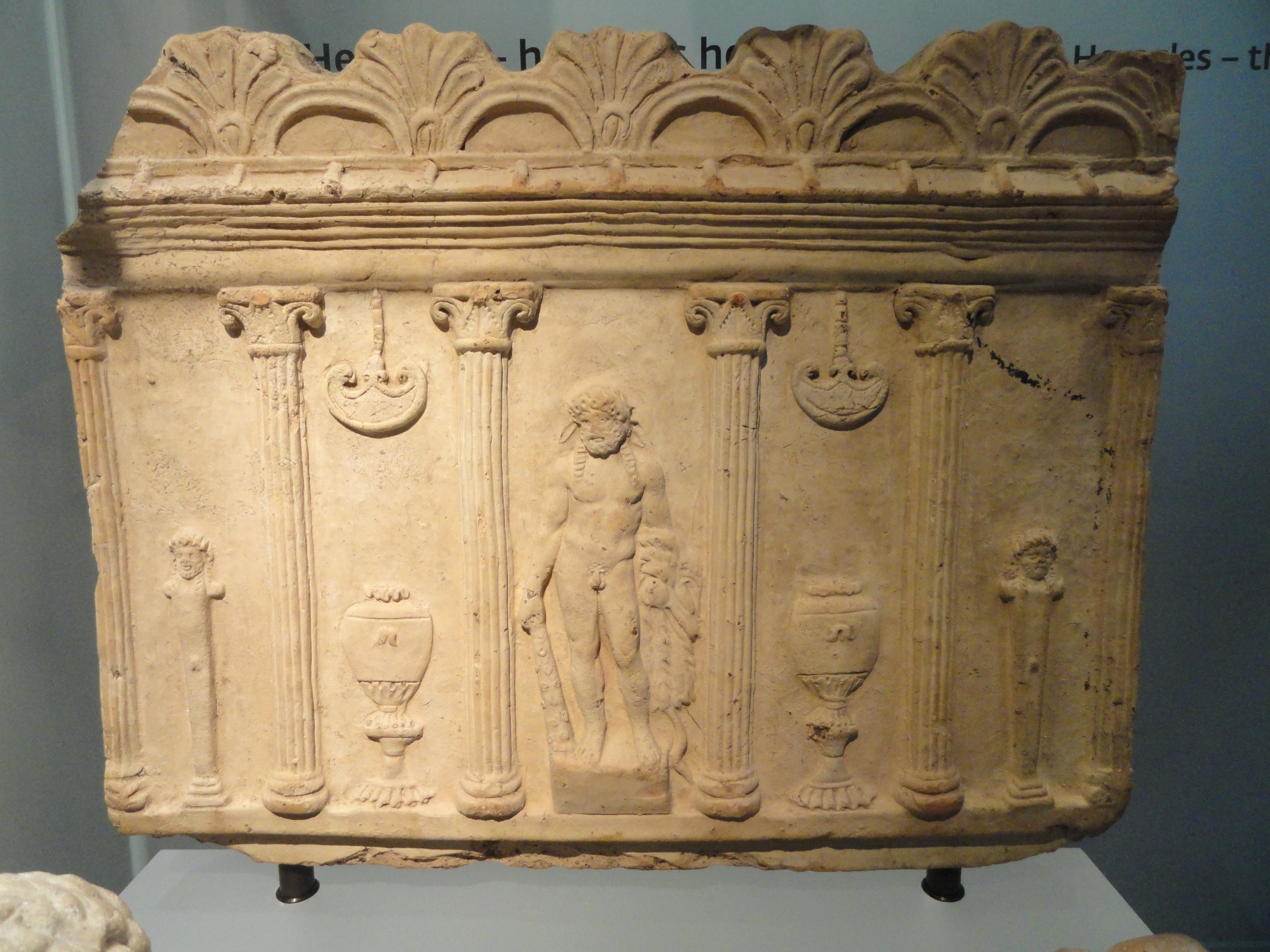 Exhibit in the Ny Carlsberg Glyptotek, Dantes Plads 7, Copenhagen, Denmark. The museum permitted photography without restriction. This artwork is now in the public domain because the artist died more than 70 years ago.